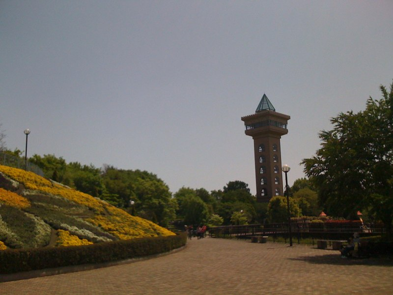 Sagamihara Park